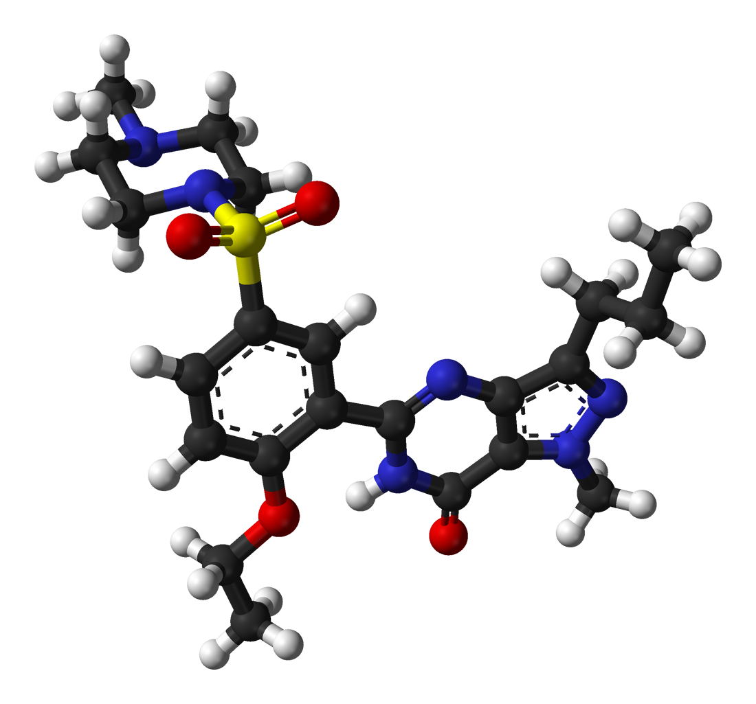 Ball-and-stick model of the sildenafil molecule, based on a the crystal structure of sildenafil citrate monohydrate from Acta Cryst. (2005). E61, o489-o491. Image generated in Accelrys DS Visualizer.